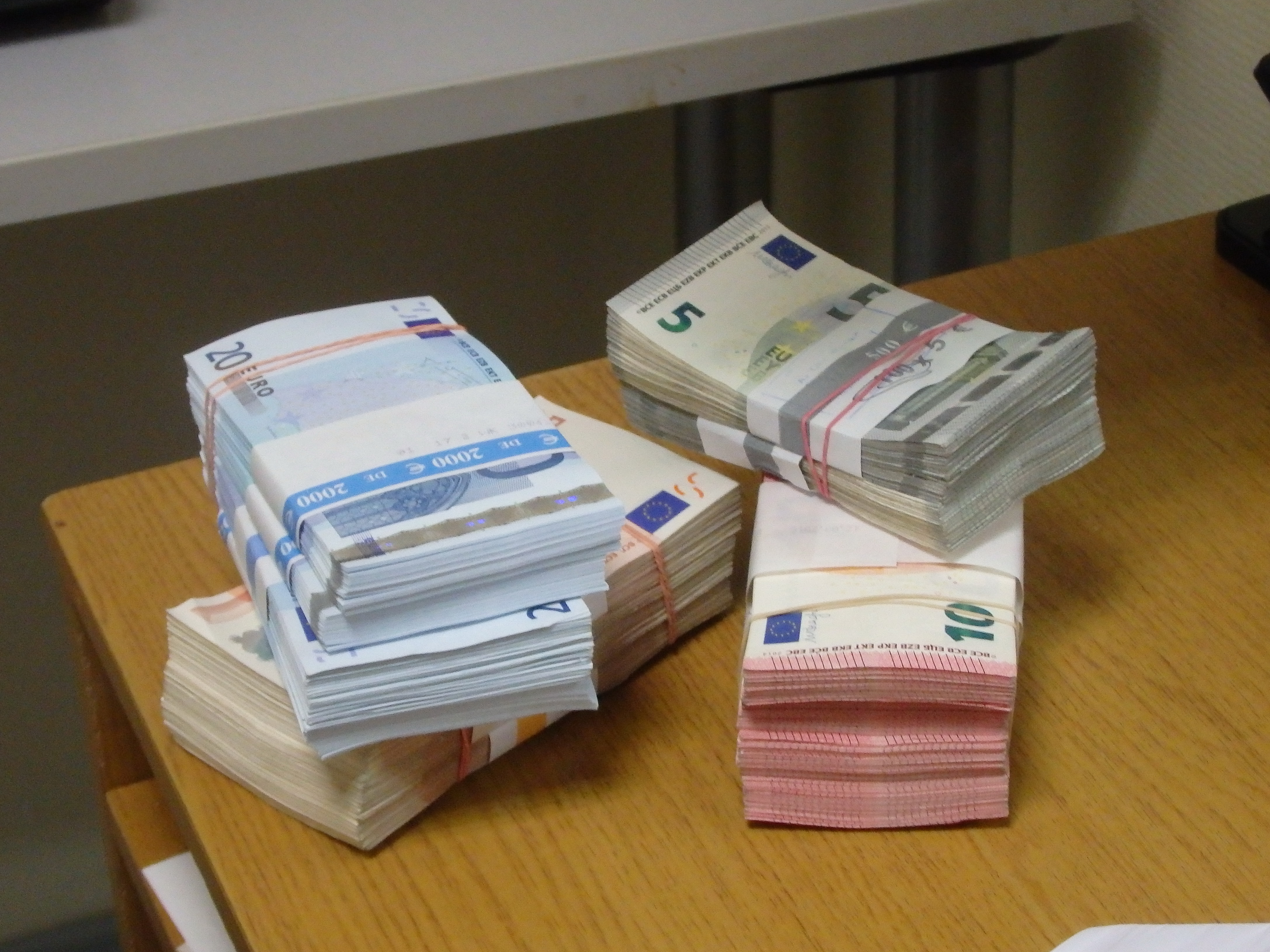 Banknotes with a total value of 30 000 euro